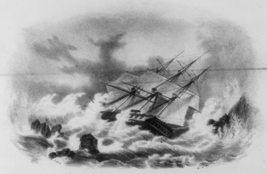 Title: The lost ship - a ballad / J.B.N. ; John Bufford's Lith. Boston. Abstract/medium: 1 print : lithograph.